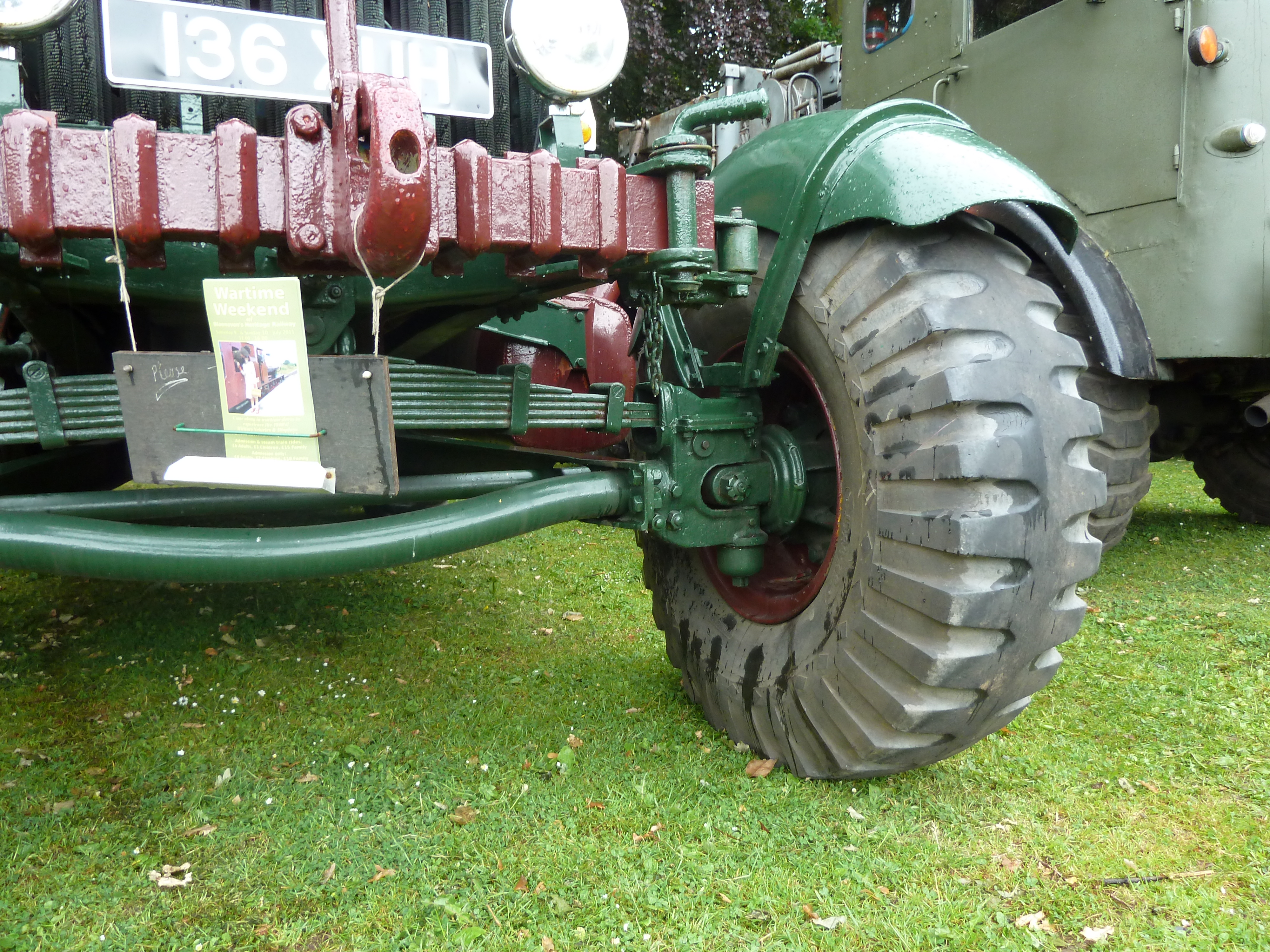 Scammell Pioneer, 6×4 ballast tractor Abergavenny steam rally, 2011.